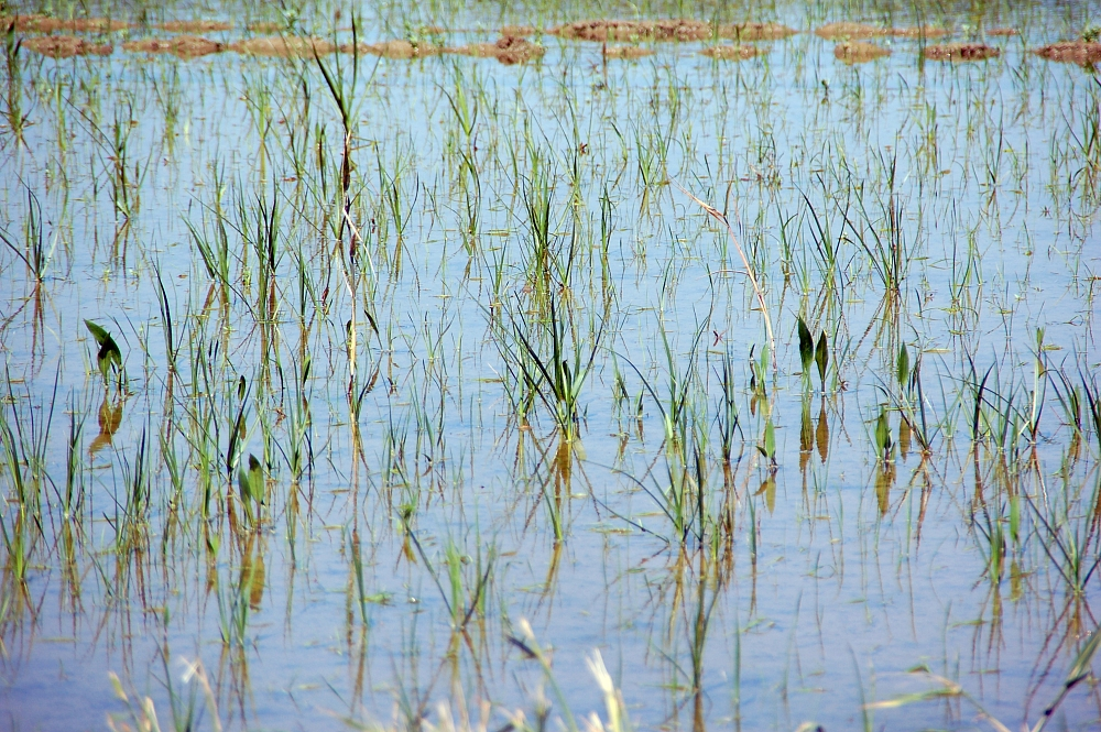 Rice field, Aigues-Mortes, Camargue, France